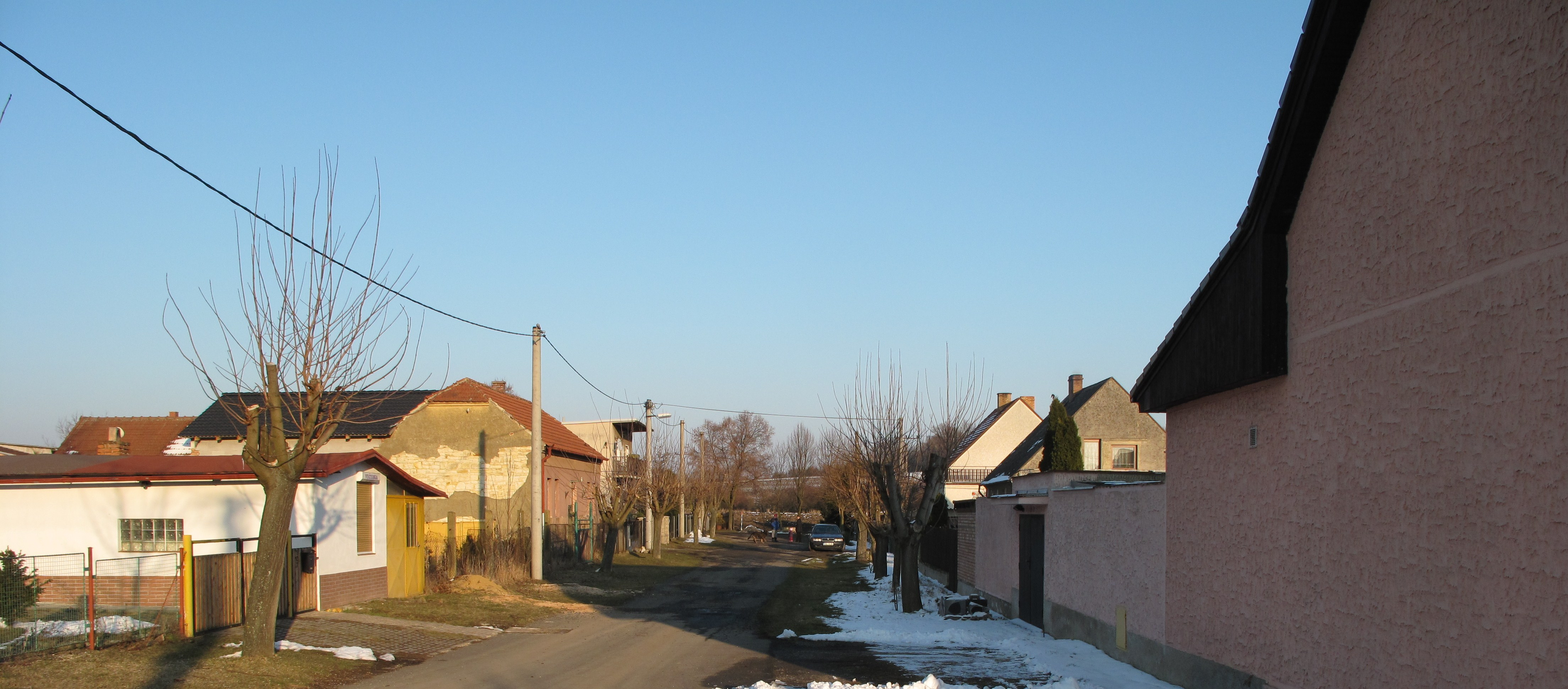 Street in Vrbičany village, Kladno District, Czech Republic.